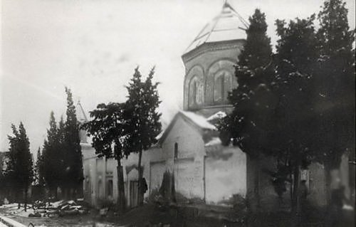 Khojivank Armenian Pantheon